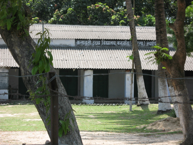 A shot of the Kalawati High School taken in 2007.